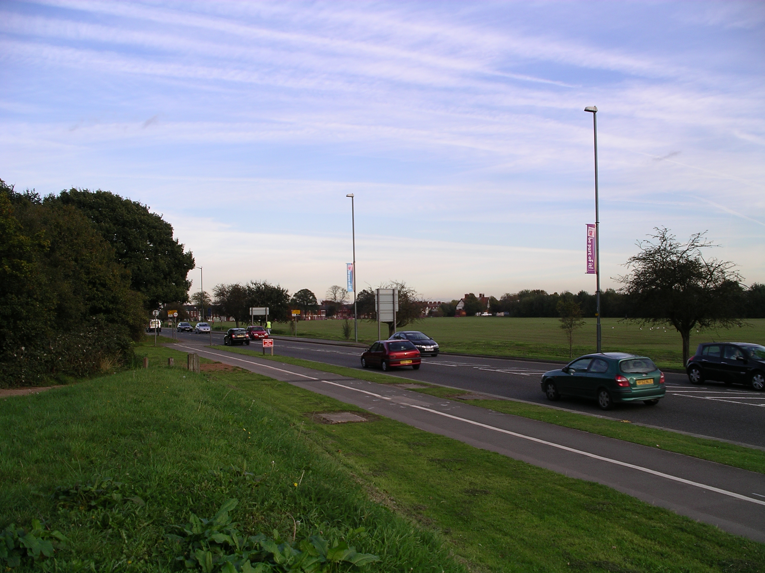 Heasall Common, Coventry, England. View to the East showing the road that divides the common